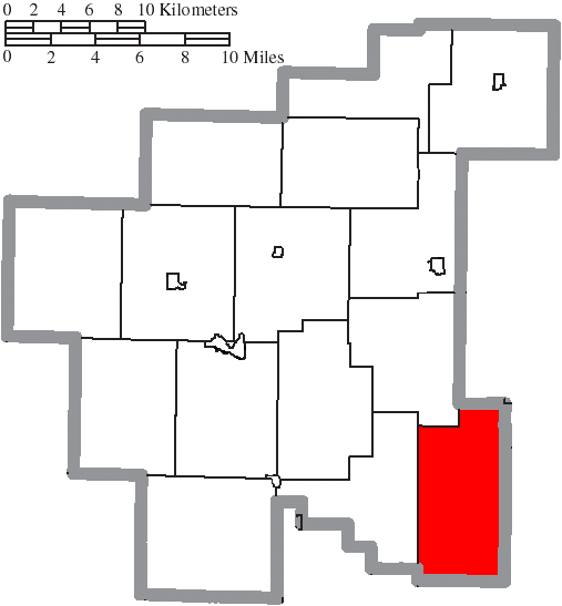 Map of the municipal and township boundaries of Noble County, Ohio, United States, as of the 2000 census, with the location of Elk Township highlighted. Township borders are shown only in unincorporated areas in order to differentiate incorporated and unincorporated areas more clearly.